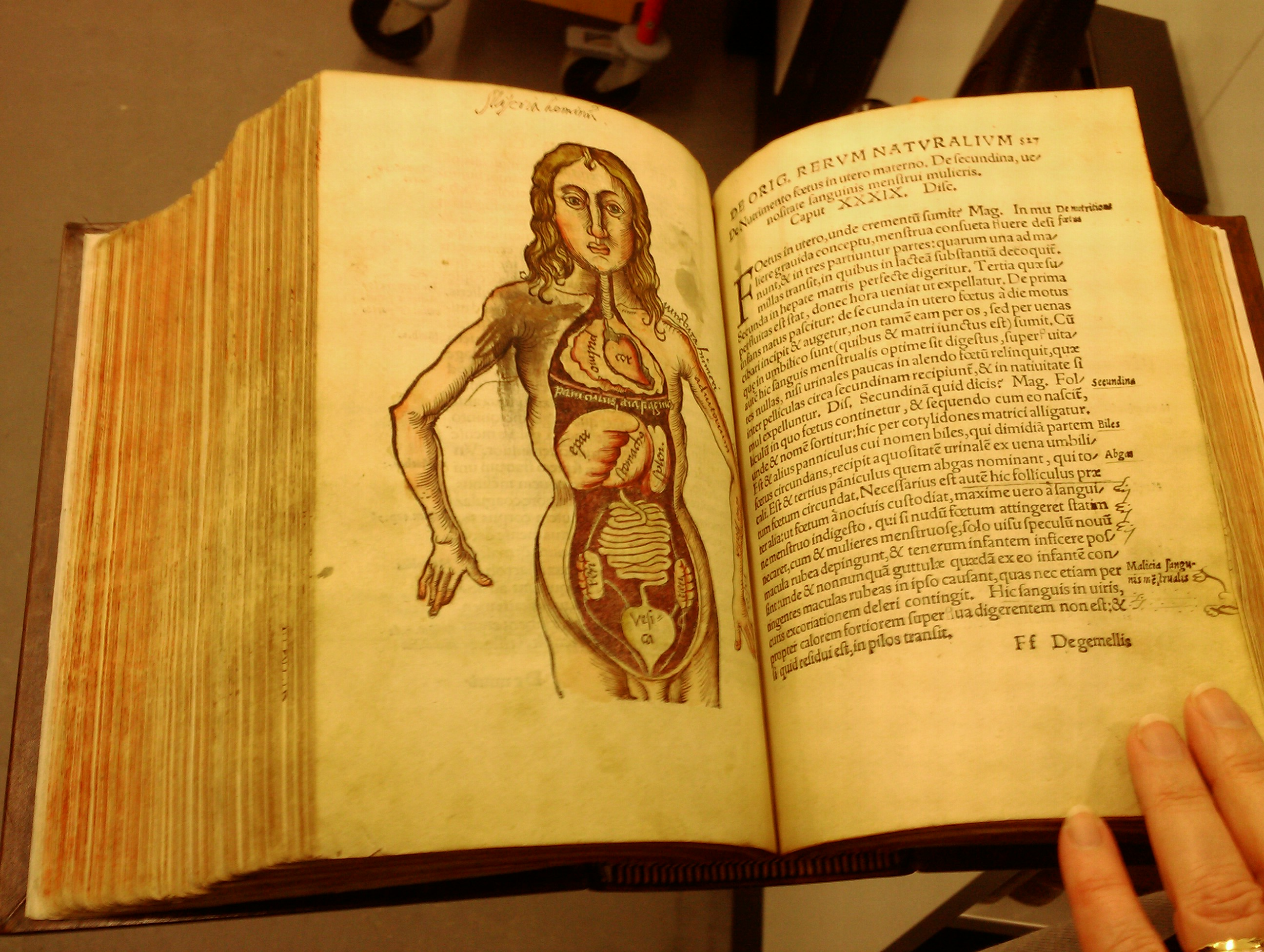 Margarita Philosopica by Reisch Anatomy